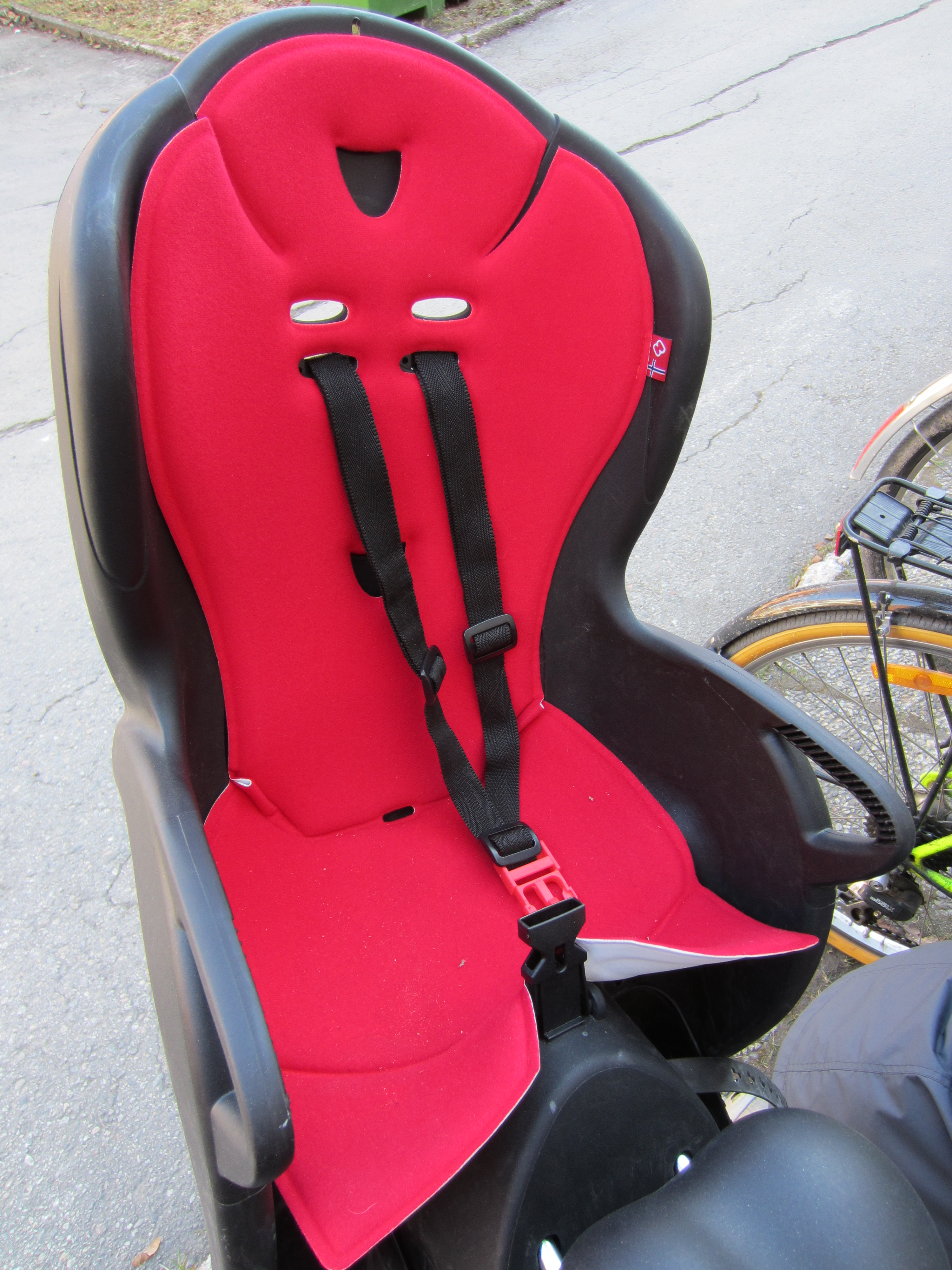 Child Bicycle Seat